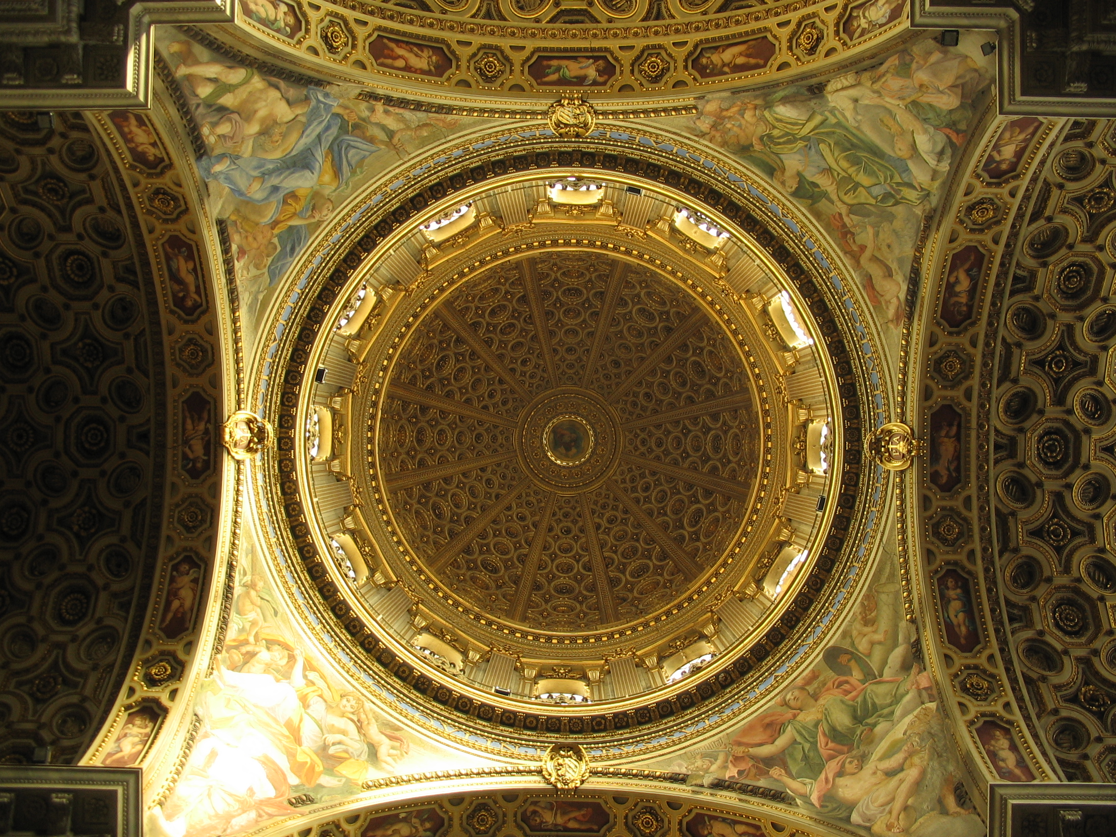 Dome of San Carlo ai Catinari, Rome